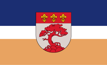 Flag of the city of Pāvilosta, Latvia.